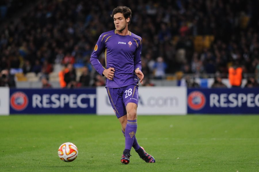 Marcos Alonso playing for ACF Fiorentina in an away match against Dynamo Kiev in UEFA Europa League on 16 April 2015